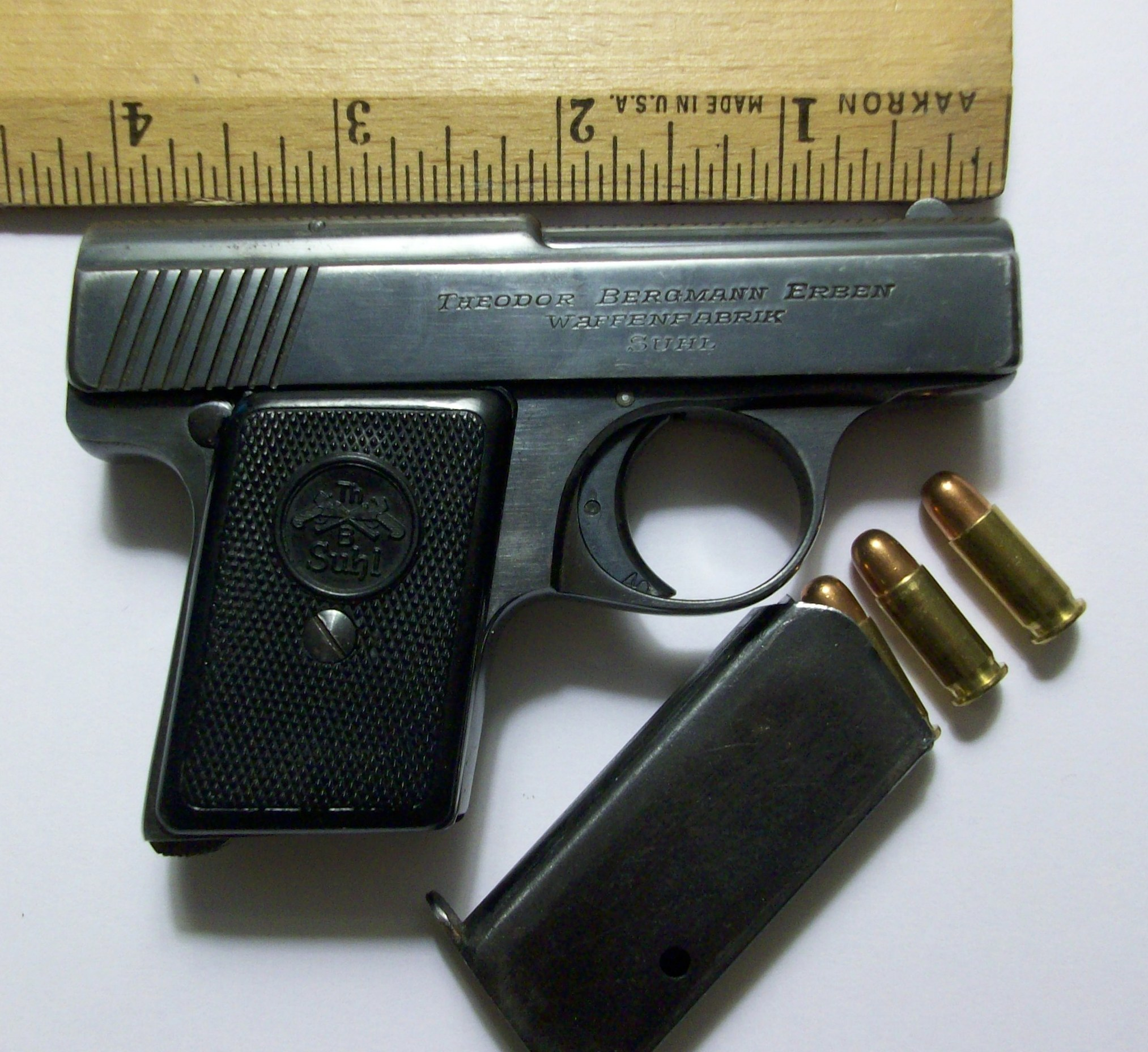 Liliput Modell I - .25 cal (6.35 mm) pistol - Theodor Bergmann Erben - Waffenfabrik SUHL